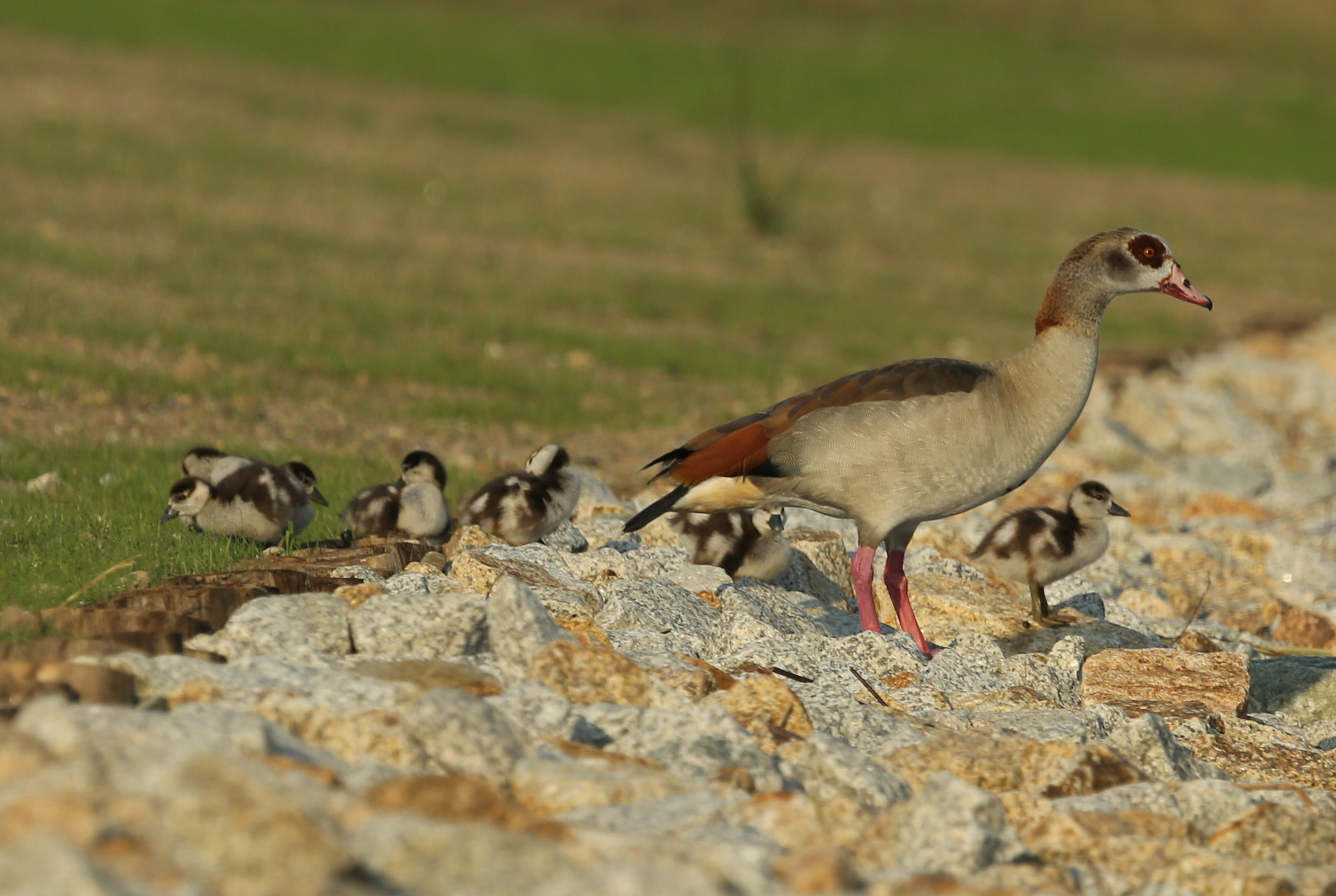 Feral Alopochen aegyptiaca, southeast Germany